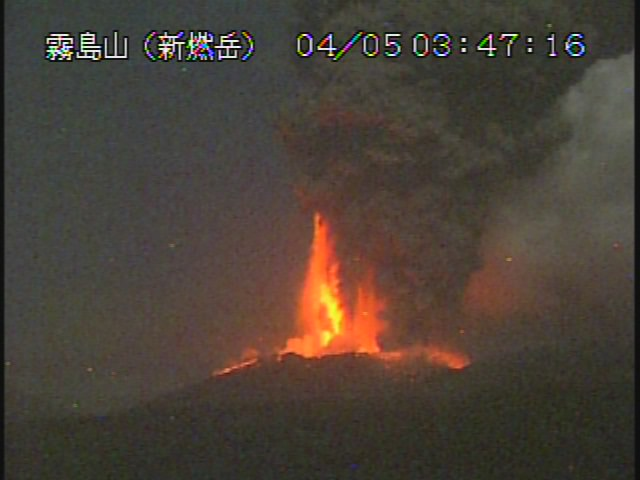 Mount Shinmoe eruption filmed by Japan Meteorological Agency from Inokoishi, Kirishima City, at 3:47 am, April 5, 2018.